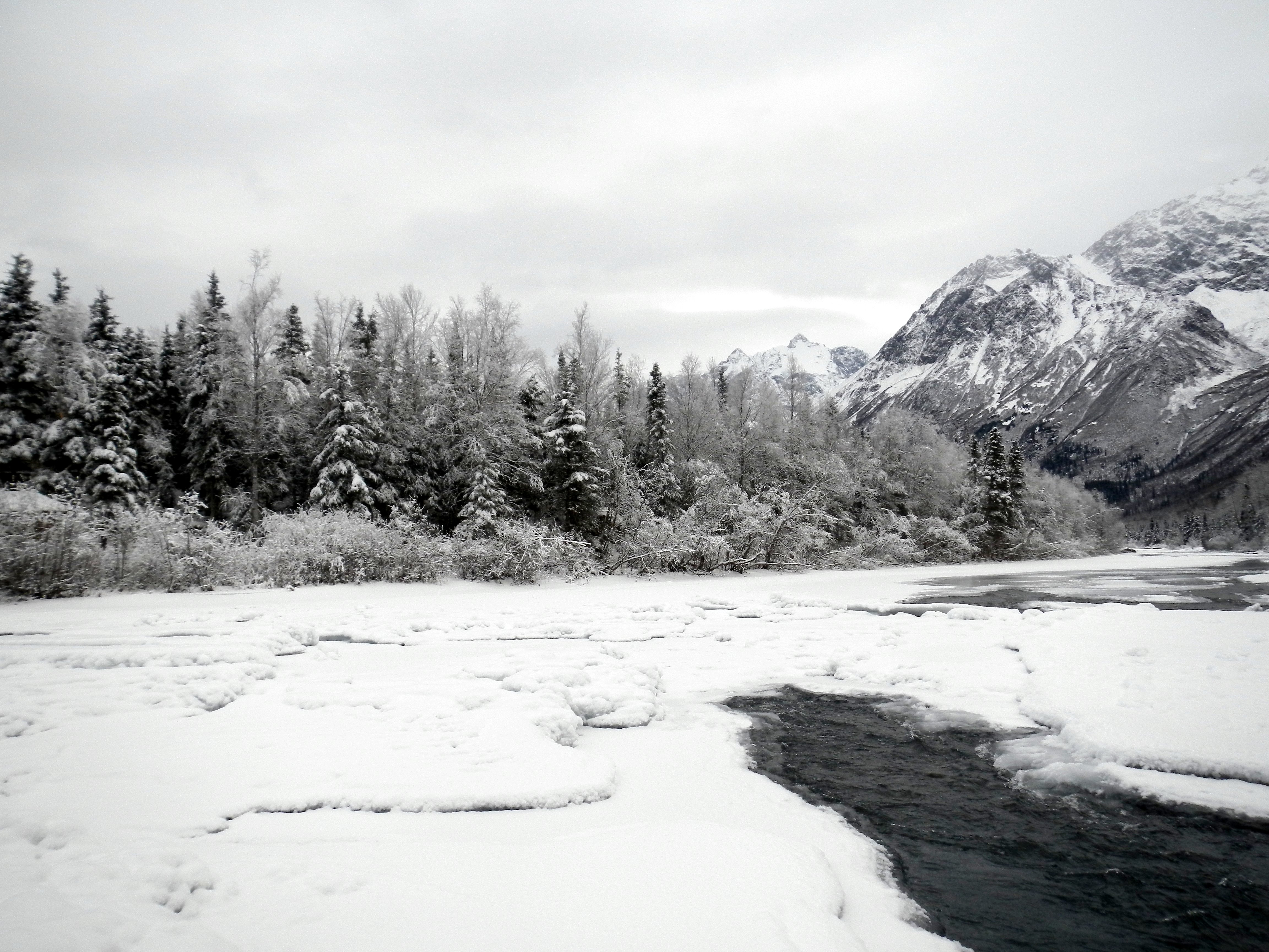 Eagle River Valley, Chugach State Park, during the winter, November 2012